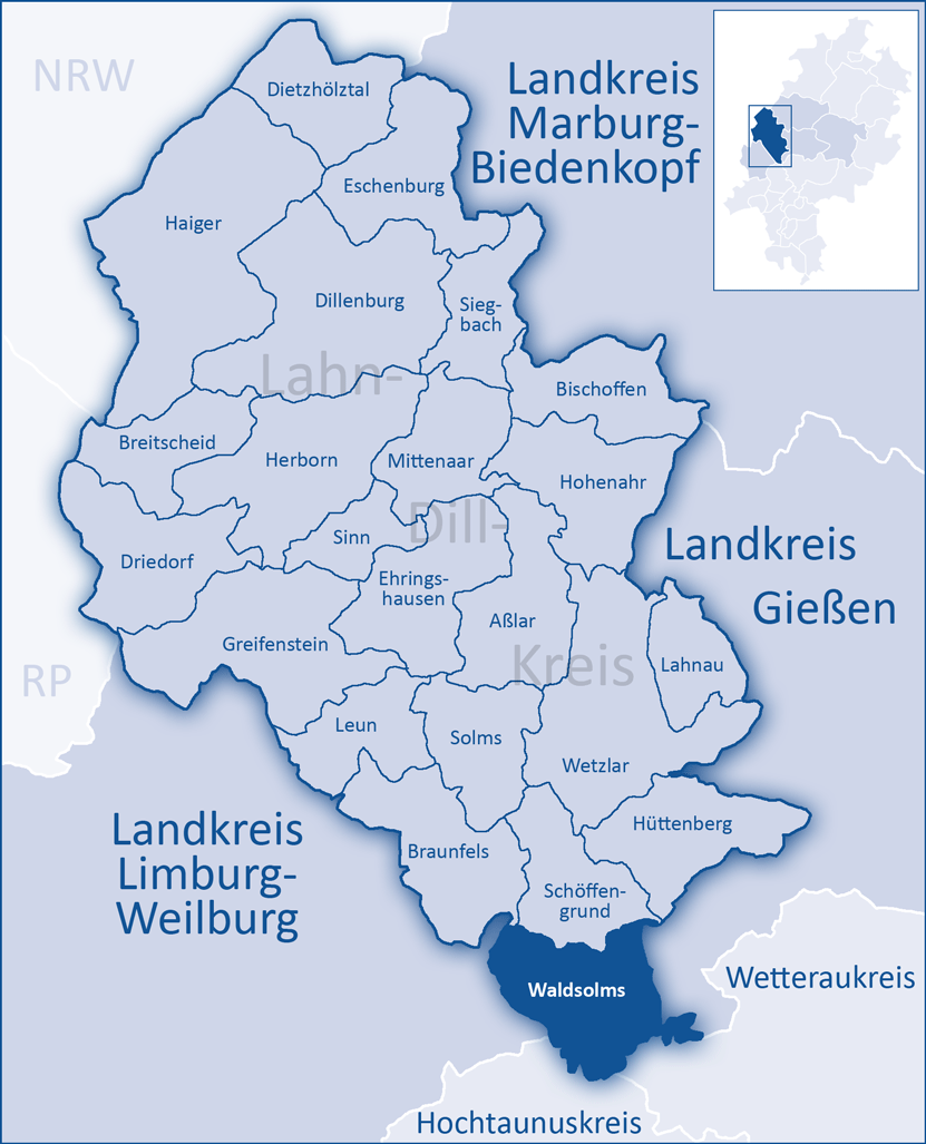 The map shows a district in the area of Lahn-Dill-Kreis